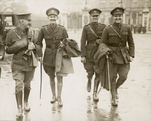 Second Lieutenant (2nd Lt) Arthur Seaforth Blackburn VC, 10th Battalion (second from left), walking down a road with fellow soldiers after his investiture by King George V at Buckingham Palace. 2nd Lt Blackburn was awarded the Victoria Cross for his actions and gallantry at Pozieres, France, on 23 July 1916. Captain W.F.J. McCann MC is at right front